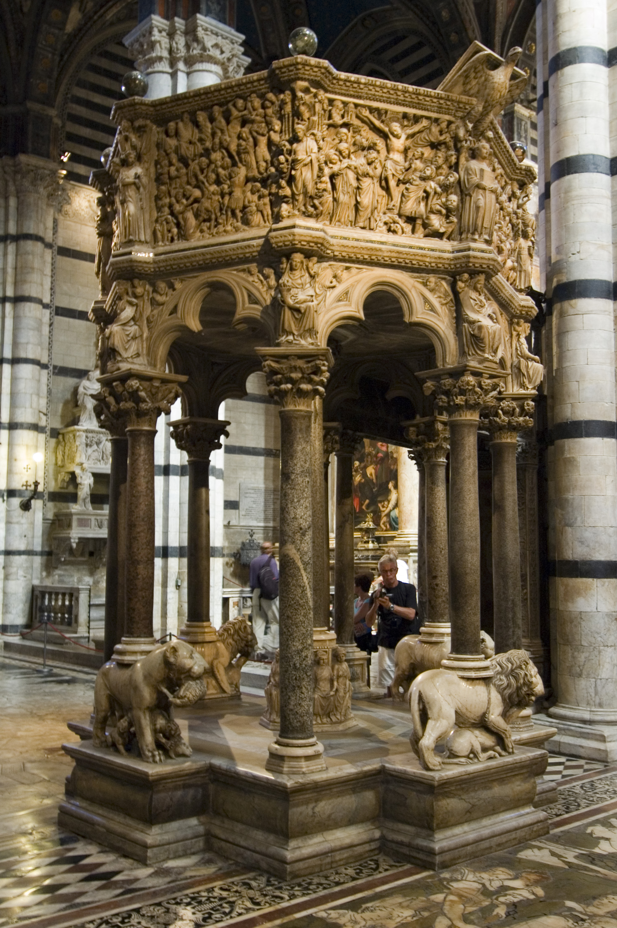 see above